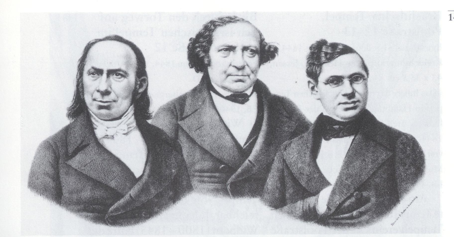 Eduard Kley, Gotthold Salomon, Naftali Frankfurter, Kreidelithographie